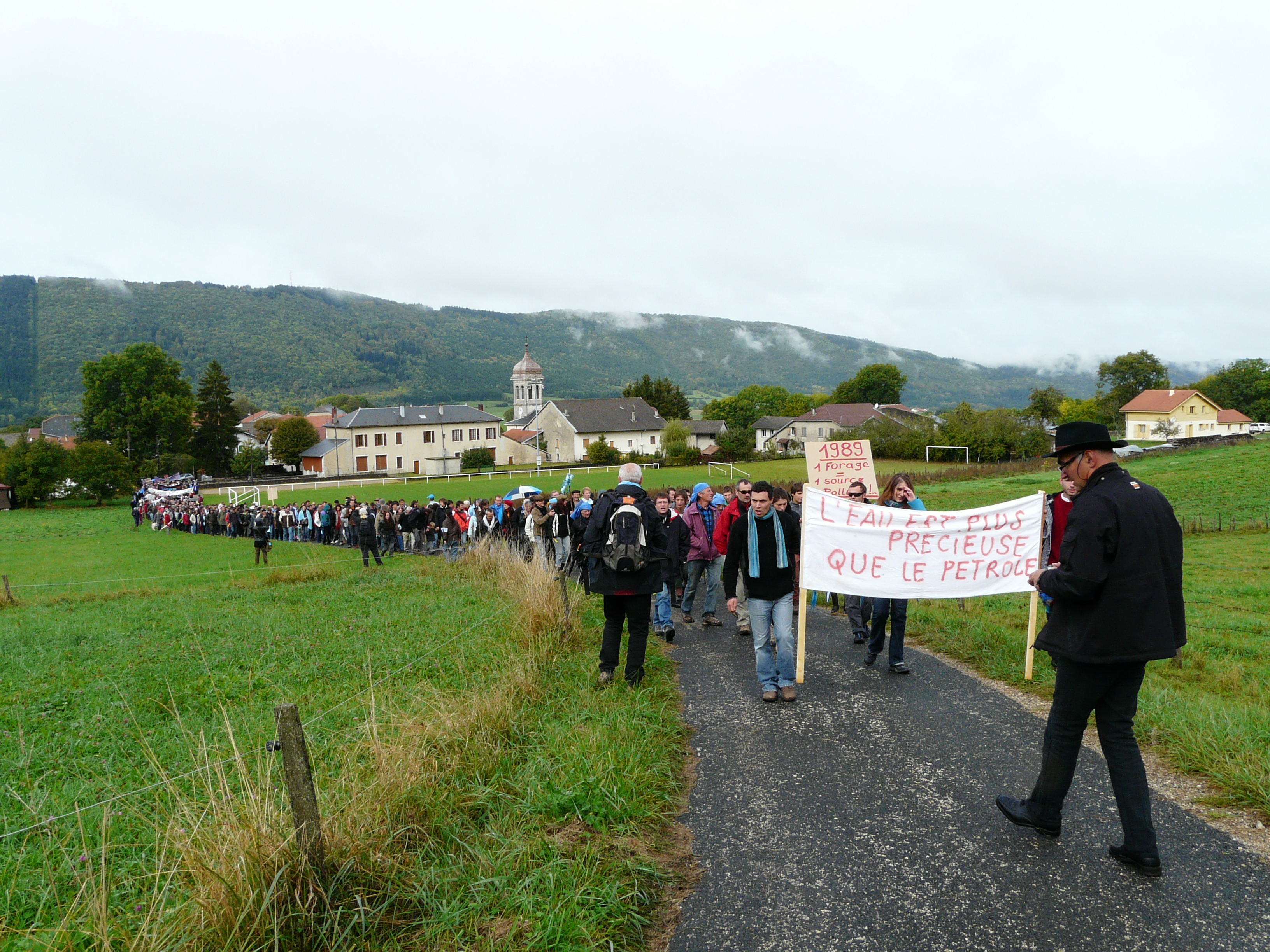 Protest march is leaving the village to former BP oil drilling site (1989), Lantenay 9 oct 2011